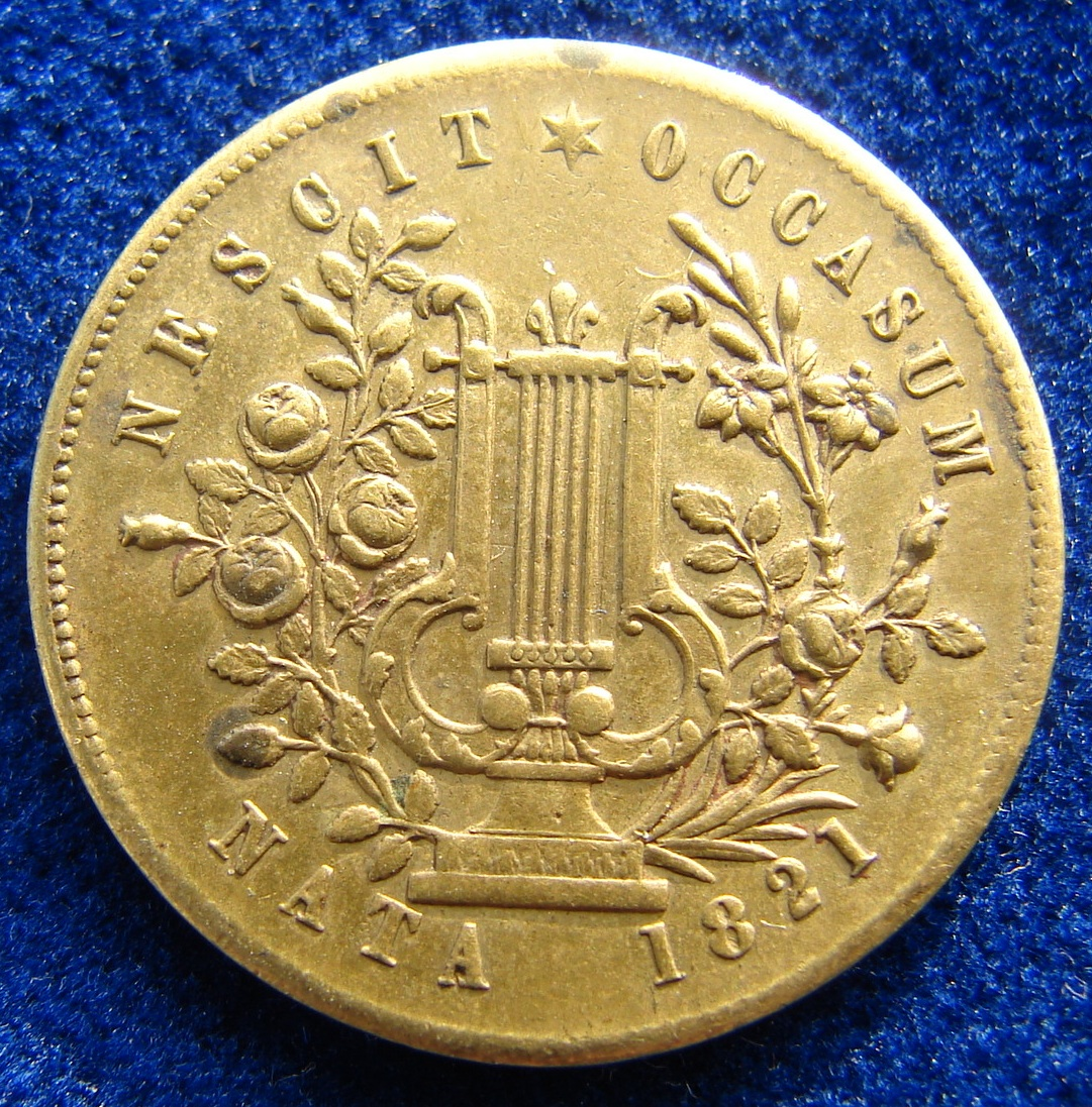 Lind- Goldschmidt, Johanna Maria (Jenny), Swedish vocalist, 1820 Stockholm - 1887 Malvern, Worcestershire, England Bronze medallion, d.= 22 mm. This token was probably issued for Jenny's tour of America, 1850 – 1852. It shows her year of birth 1821 in contrary to 1820 in the Oxford University Press. Carole Rosen, ‘Lind , Jenny (1820–1887)’, Oxford Dictionary of National Biography, Oxford University Press, 2004 accessed 10 June 2014. This contradiction needs more research to be done. Portrait facing, curved above: "JENNY LIND"/ Lyre between branches, around: "NESCIT OCASUM NATA 1821". Fuld/Rulau Jenn-11 . Medallists: (John) Allen & (Joseph) Moore, 1817 Birmingham - 1901 Birmingham, England. Condition: VERY FINE.